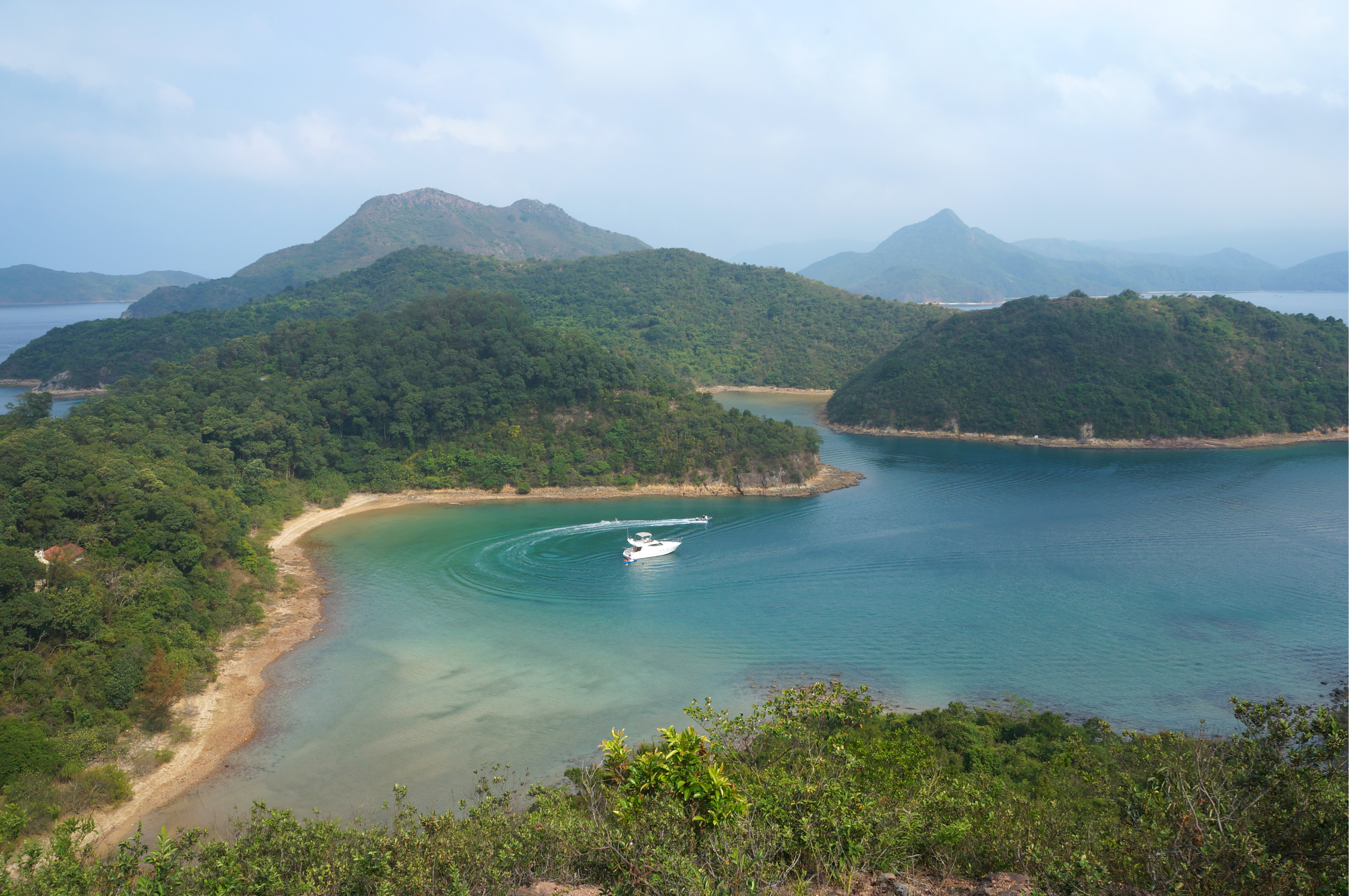 Wong Kok Teng and Camp Cove